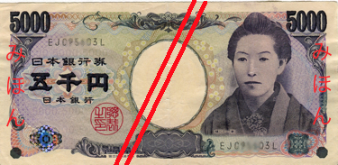 Series E 5000 Yen Bank of japan note. Portrait: Ichiyō Higuchi. First issued in 2004. 156m x 76mm.